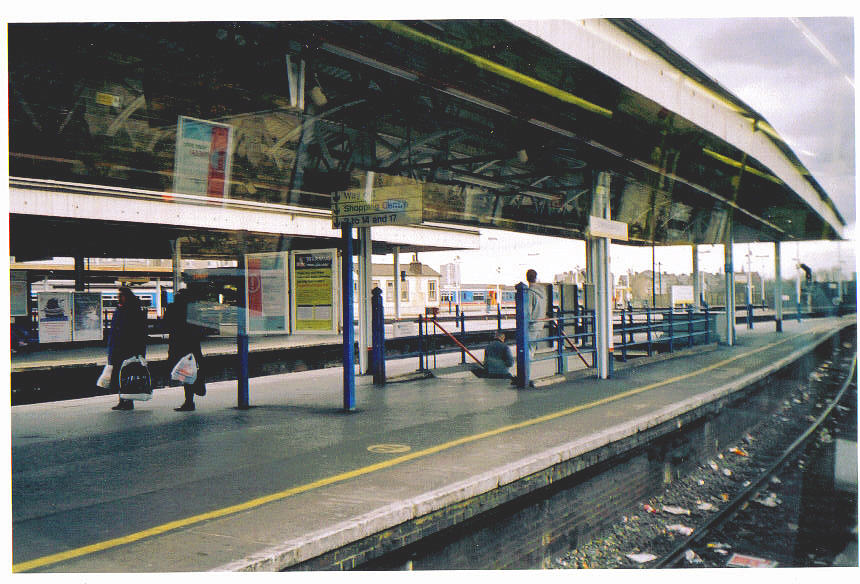 Clapham Junction Station in 2001. Virgin Trains used to call here until 2001. The Brighton route ran through it until circa 2008.